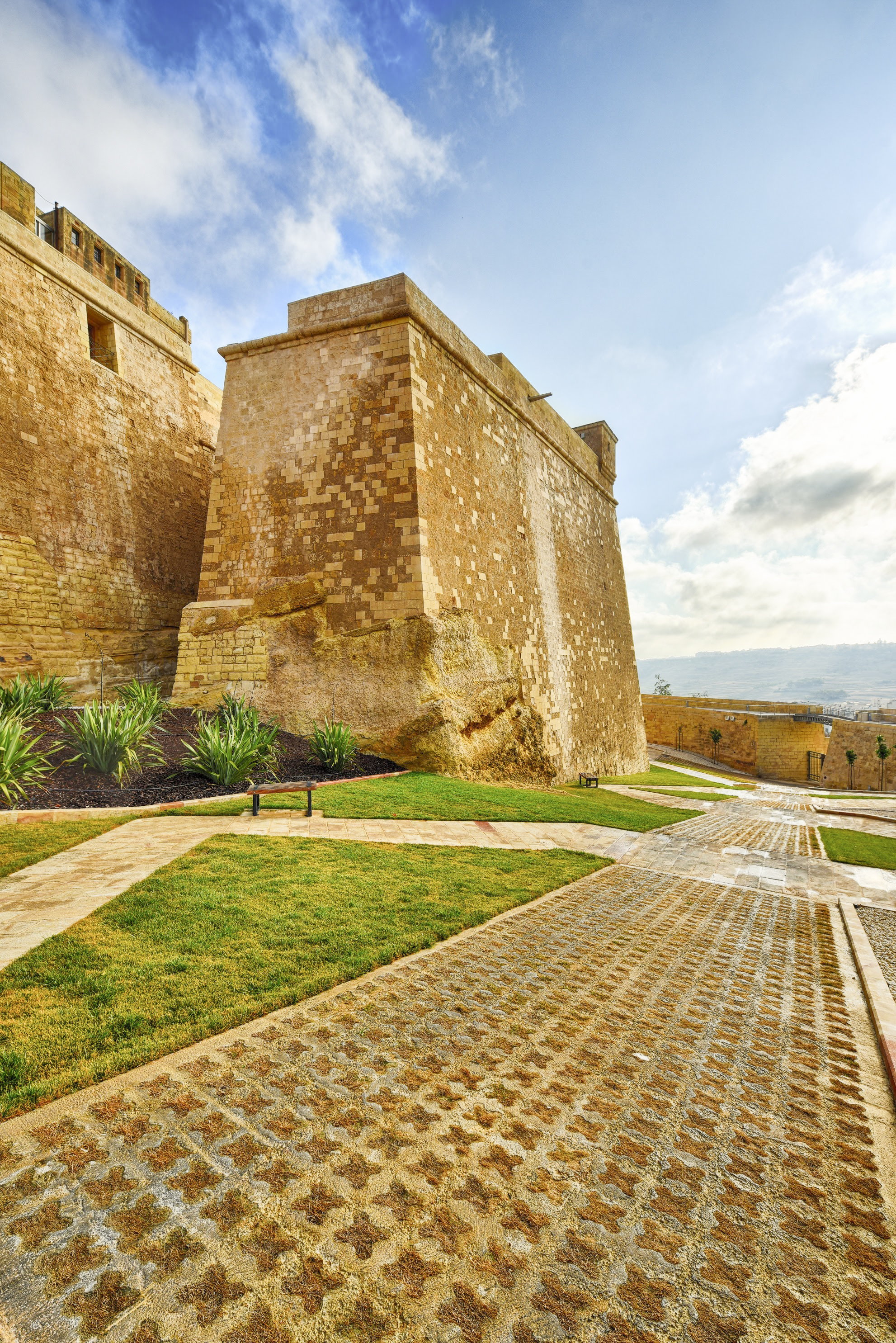 Citadel This media is about Maltese cultural property with inventory number 00003.